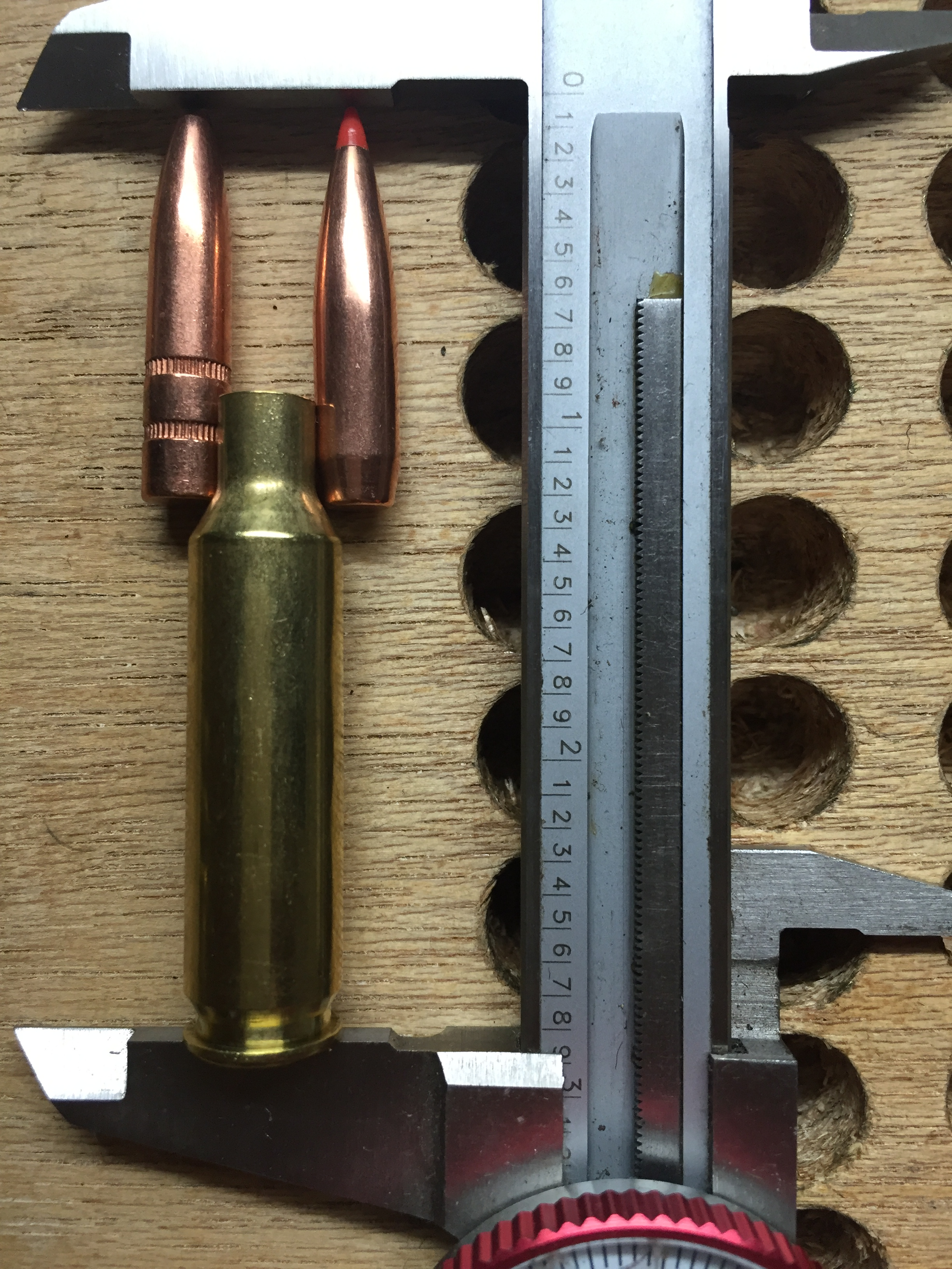 Long sleek and high BC bullets are the new norm. Only the very longest 140gr bullets will even reach the neck shoulder junction. If the case is reloaded more then 10 times then great care should be taken to avoid donuts. Most Creedmoor brass does not last more then 10 reloads though, so as long as you toss before the 10 you have nothing to worry about when hand loading long bullets. Top is a 123gr A-Max and bottom is a Remington 140gr. Calipers are set to magazine length.